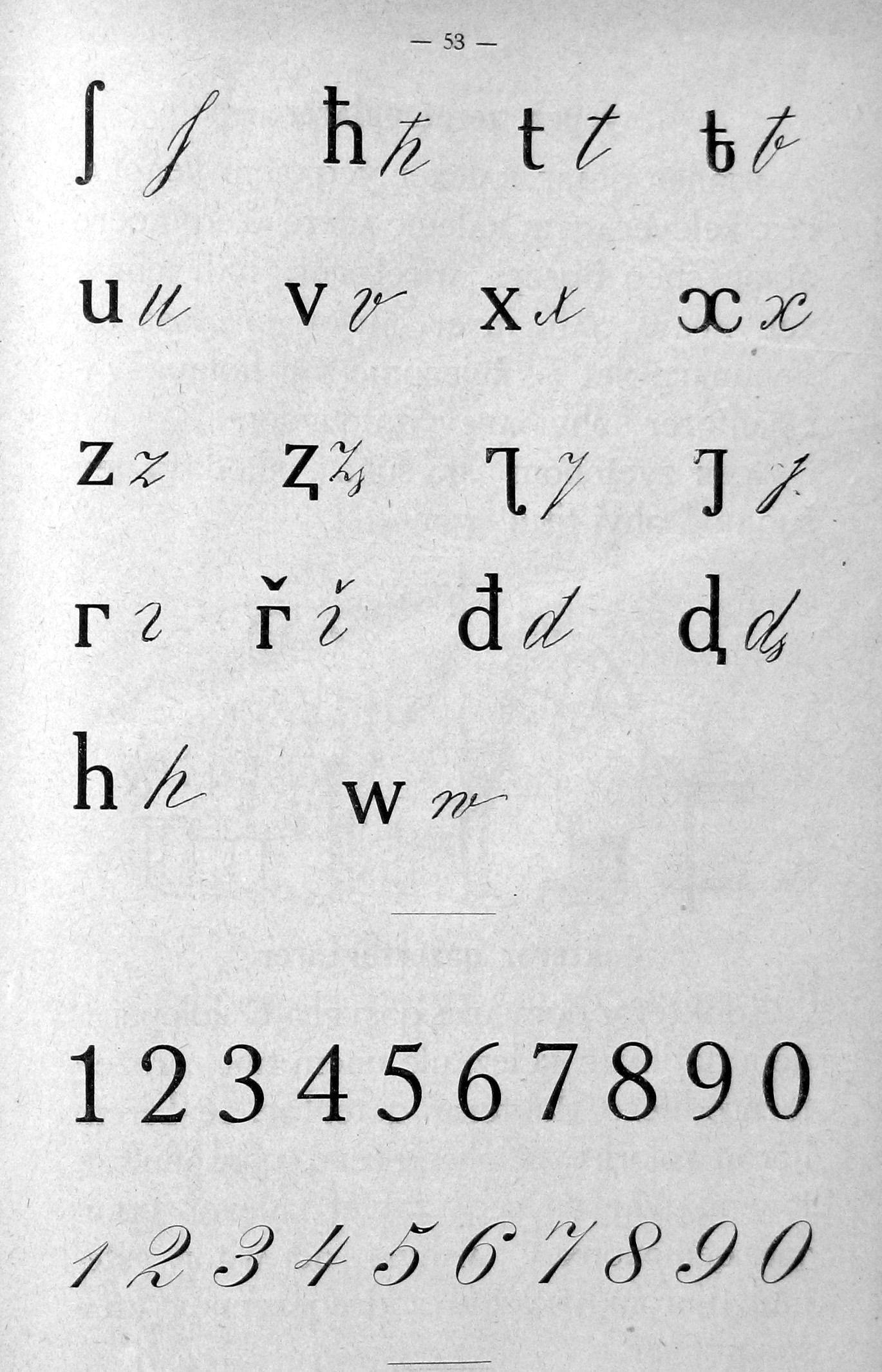 Scan from Adyg primary (1927)